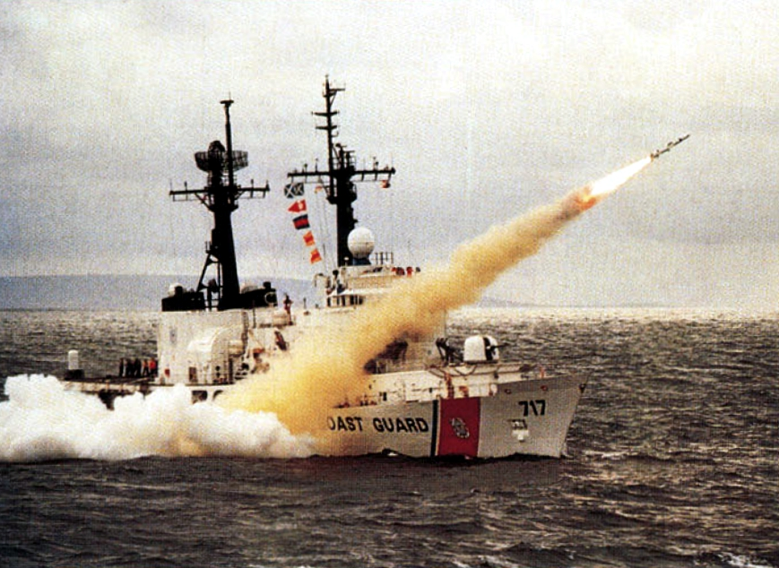 The U.S. Coast Guard high endurance cutter USCGC Mellon (WHEC-717) launching a RGM-84 Harpoon missile during tests off Oxnard, California (USA), in January 1990. Mellon was the first and only USCG cutter to be fitted with the Harpoon missile.